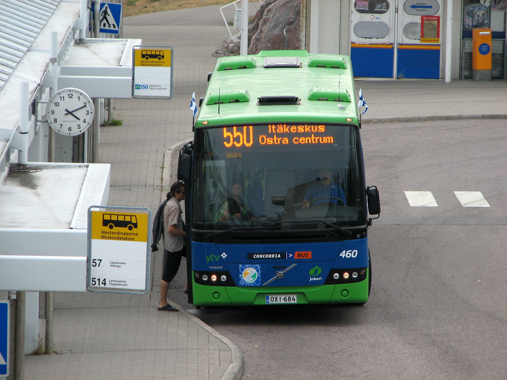 "Jokeri" bus at Westend station in Espoo, Finland. Volvo 8700 LE 6x2 (reg. OXI-684, #460) with Volvo B12BLE chasiss. Built 2006. Concordia Bus Finland from Espoo operator.